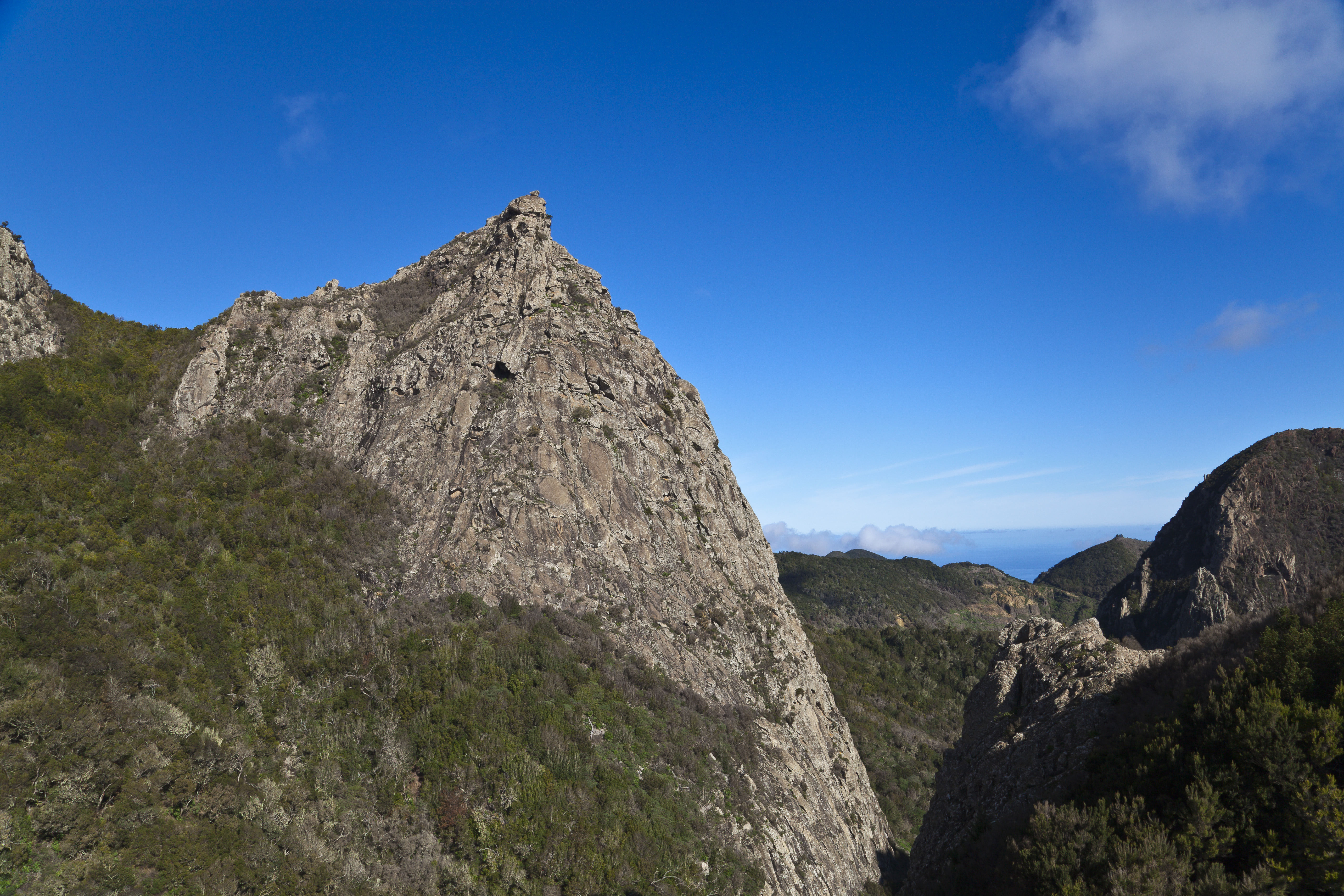 Garajonay National Park, La Gomera, Spain